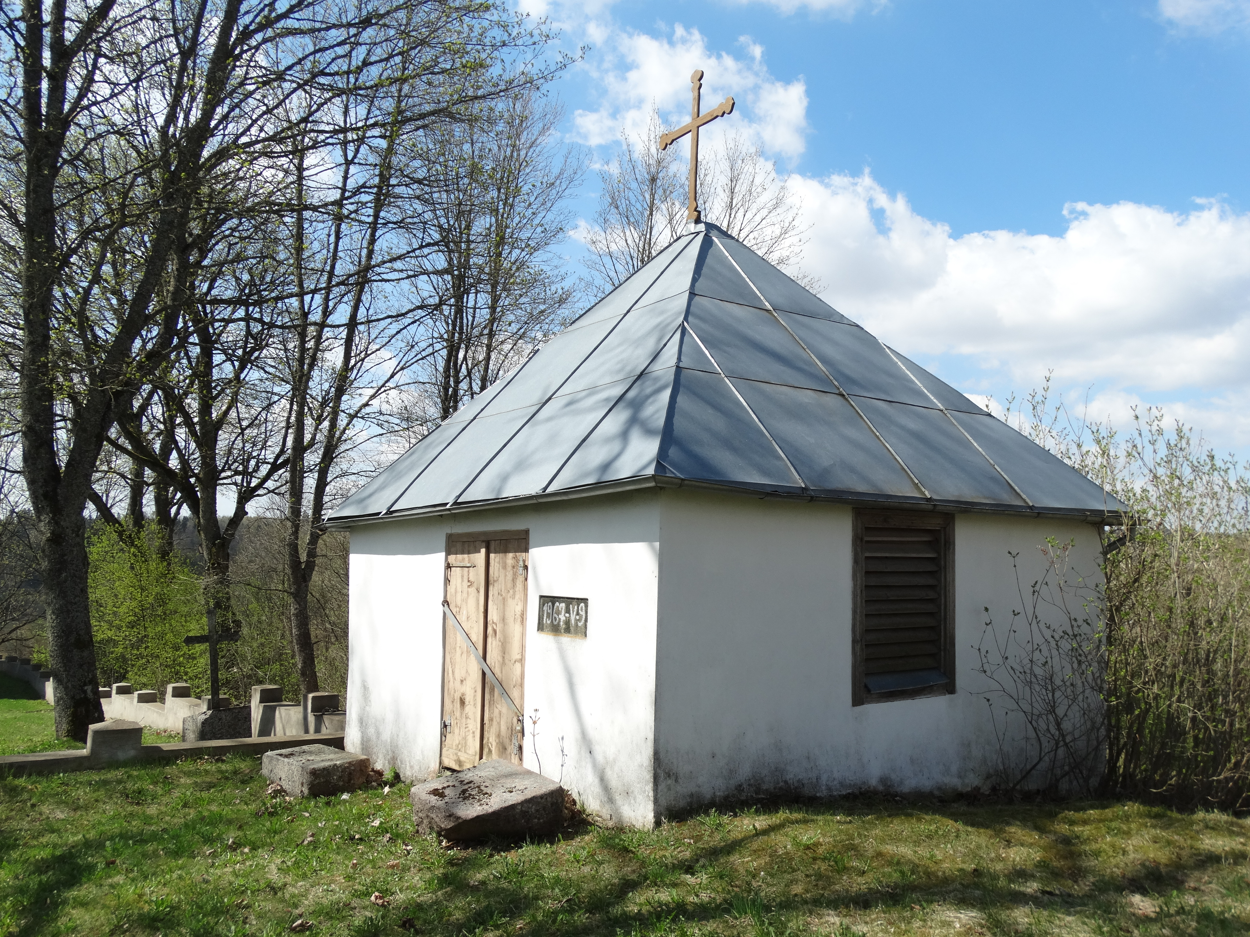 Church in Ugioniai, Raseiniai District, Lithuania